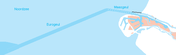 The Eurogeul with the Maasgeul at the entrance of Rotterdam Harbour, map also shows the Maasvlakte and Europoort, and the white leading lights